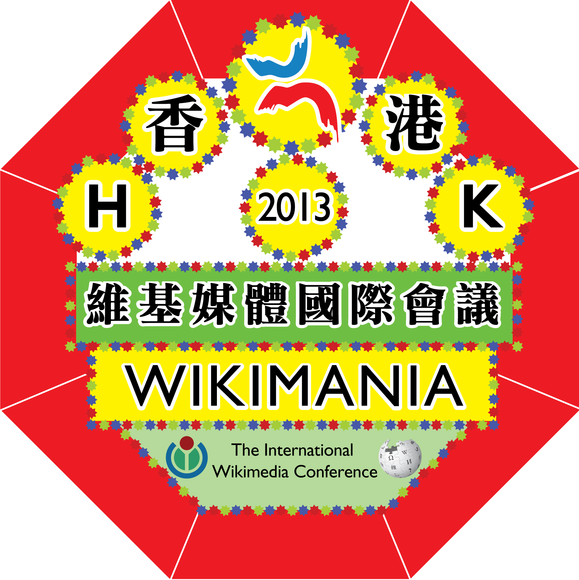 Logo of Wikimania 2013 in Hong Kong (Final Version)